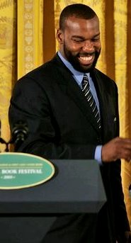 Golden State Warrior Baron Davis (shown) Phoenix Mercury guard Diana Taurasi (cropped out) present Laura Bush (also cropped out) with a basketball jersey at the National Book Festival Author's breakfast in the East Room.